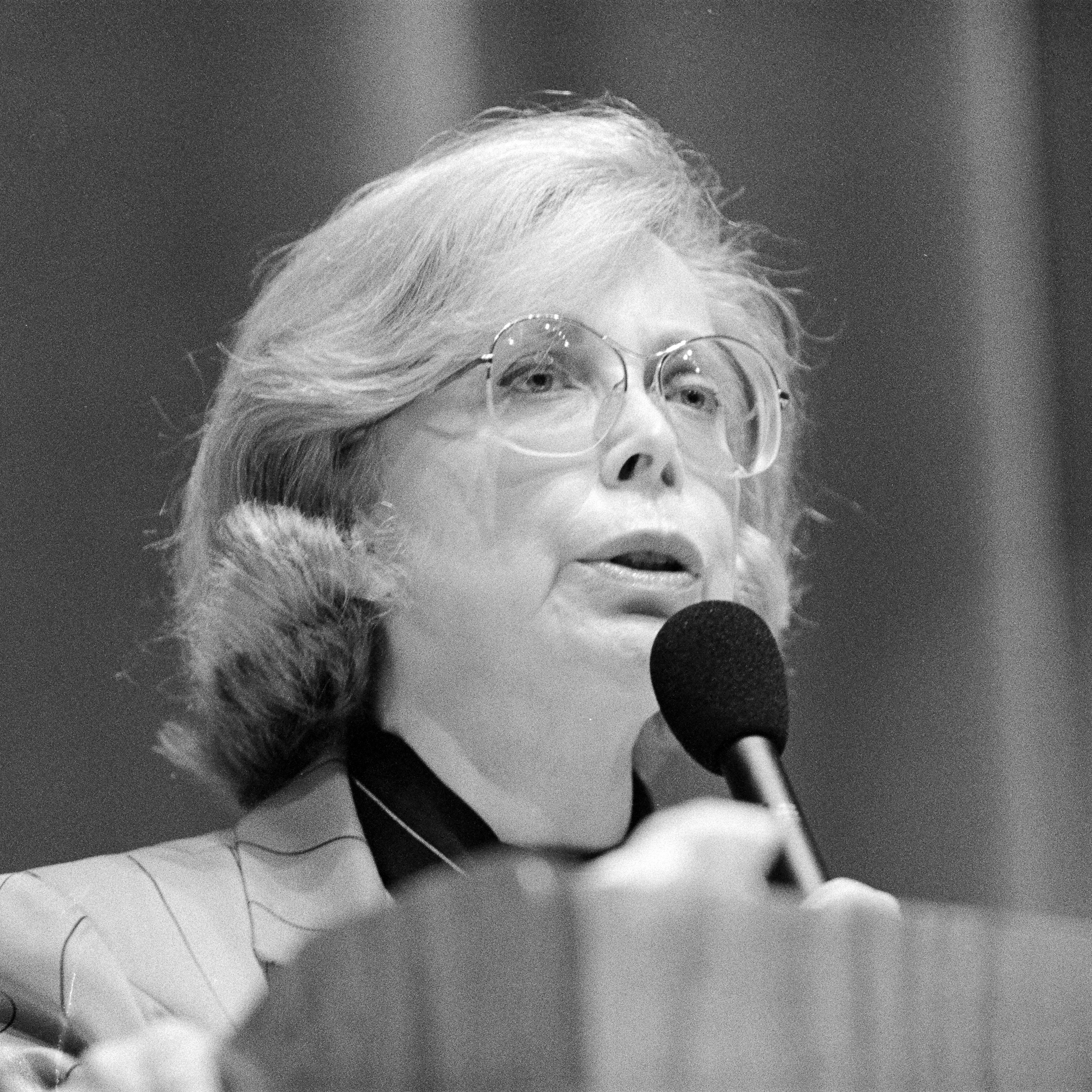 Dr. Joyce Brothers was the convocation speaker for Cornell University in May 1988. Photo by me. Date confirmed in this [obituary